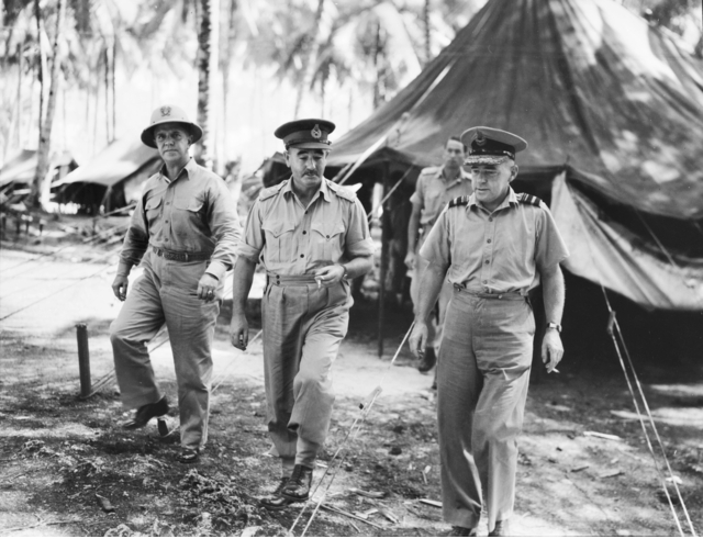 Morotai, Halmahera Islands, Netherlands East Indies. Preliminary conference attended by commanders of RAAF Command, First Tactical Air Force, RAAF, US Navy and Australian Army. Details of the Australian landing on Tarakan Island, off the north-east coast of Borneo were discussed. Amongst those present were: Rear-Admiral Forrest Royal, US Navy; Lieutenant-General Sir Leslie Morshead; Air Vice-Marshal W. B. Bostock CB CBE.